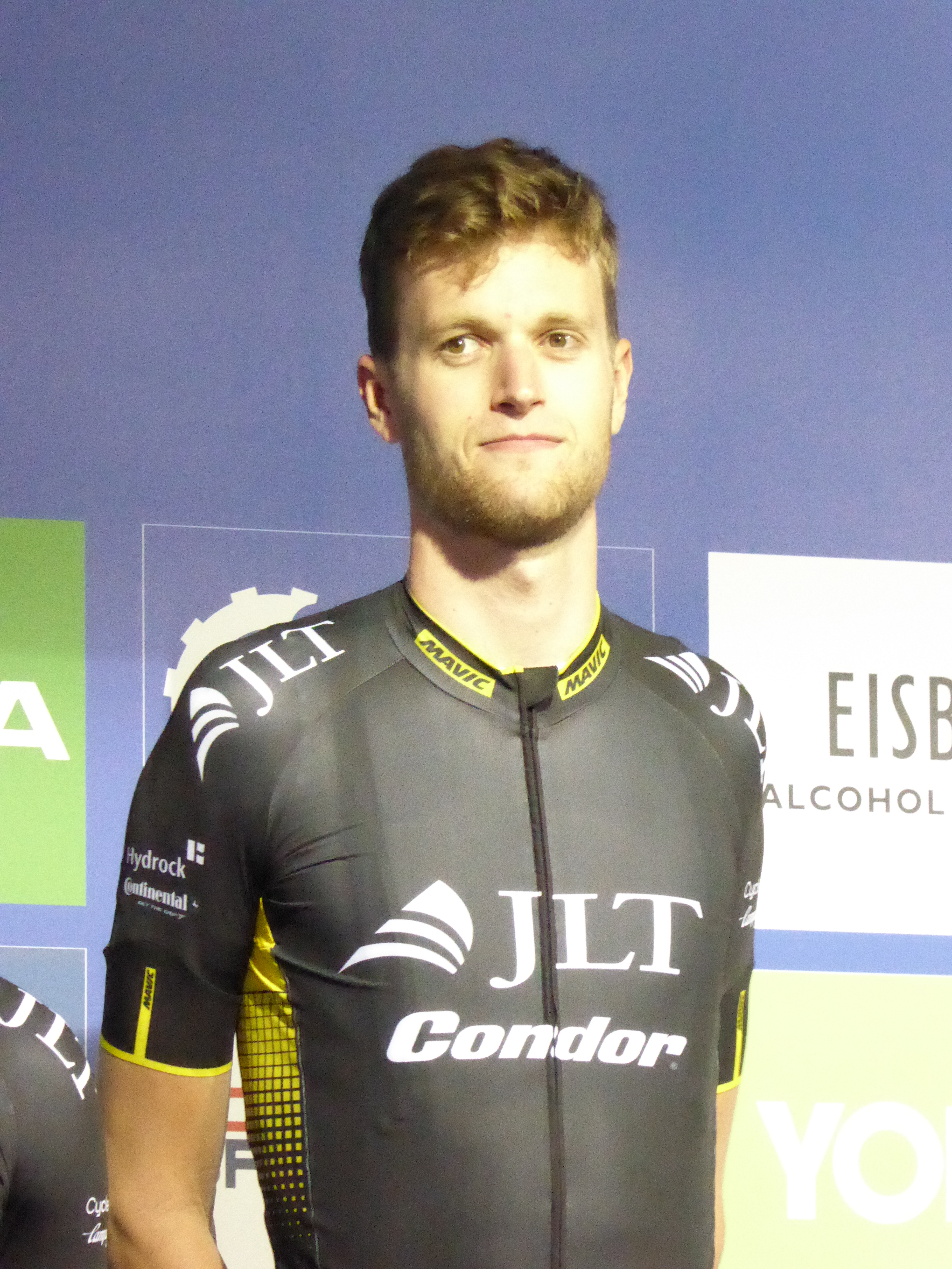 Conor Dunne (JLT-Condor), pictured at the 2016 Tour of Britain team presentation in Glasgow on 3 September 2016.